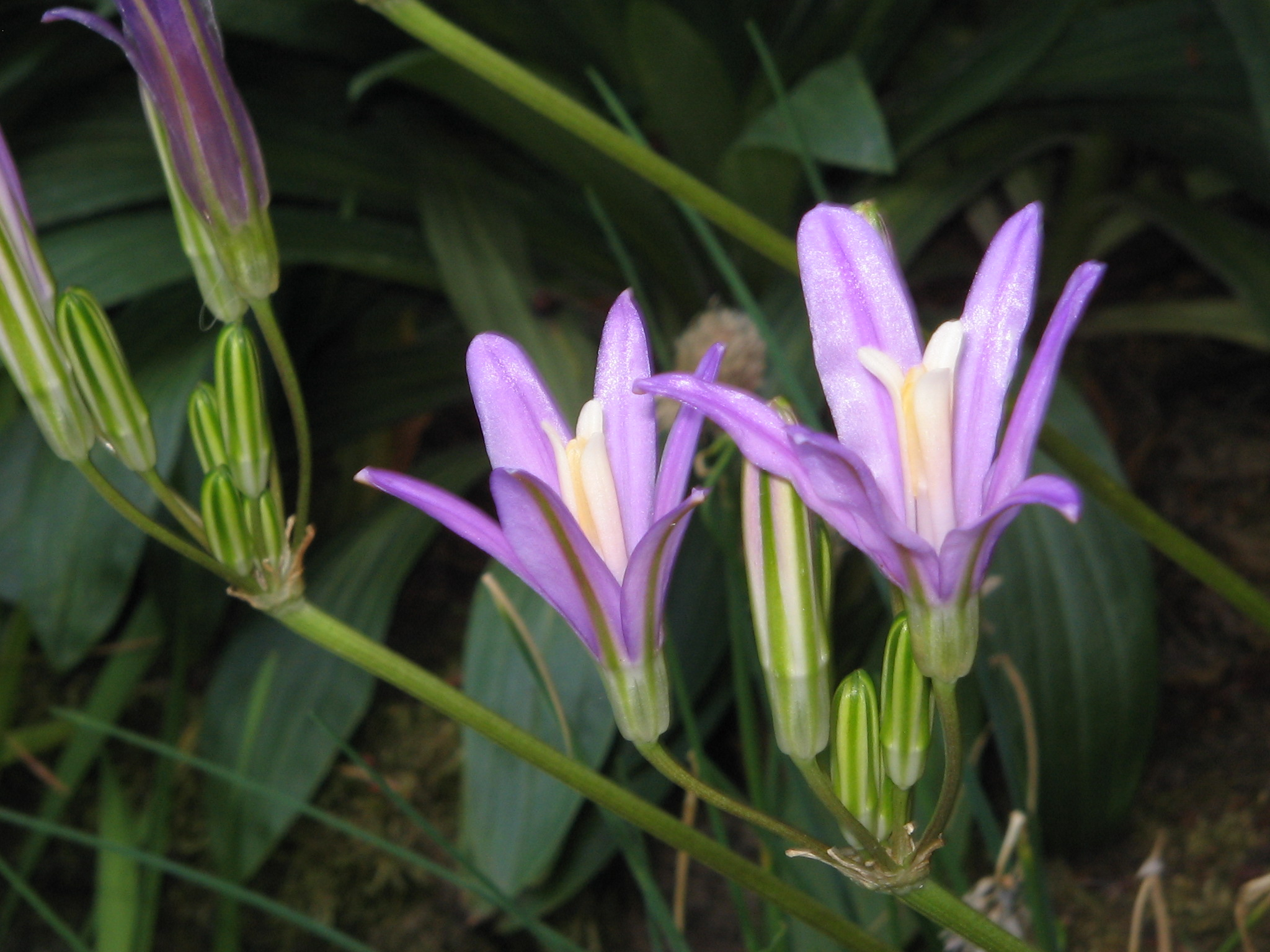 Brodiaea californica — close-up